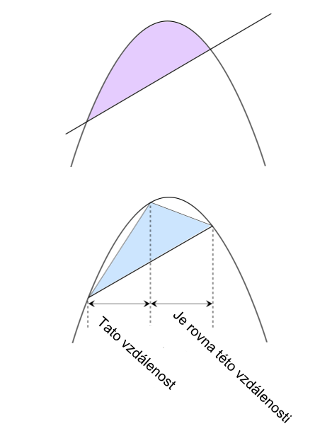 Parabolic segment and corresponding inscribed triangle This vector graphics image was created with CorelDRAW